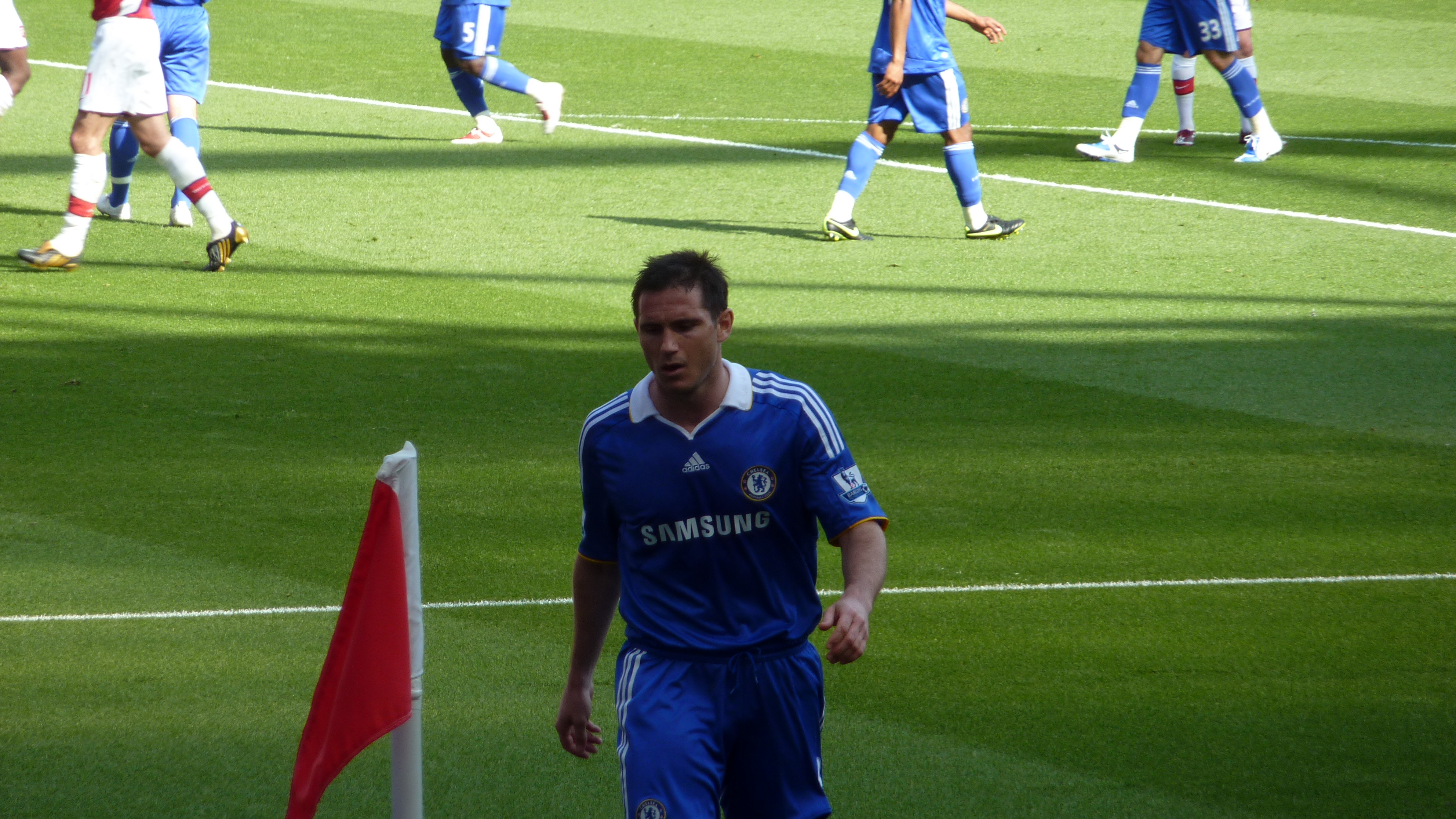 Frank Lampard of Chelsea F.C. approaching the corner flag